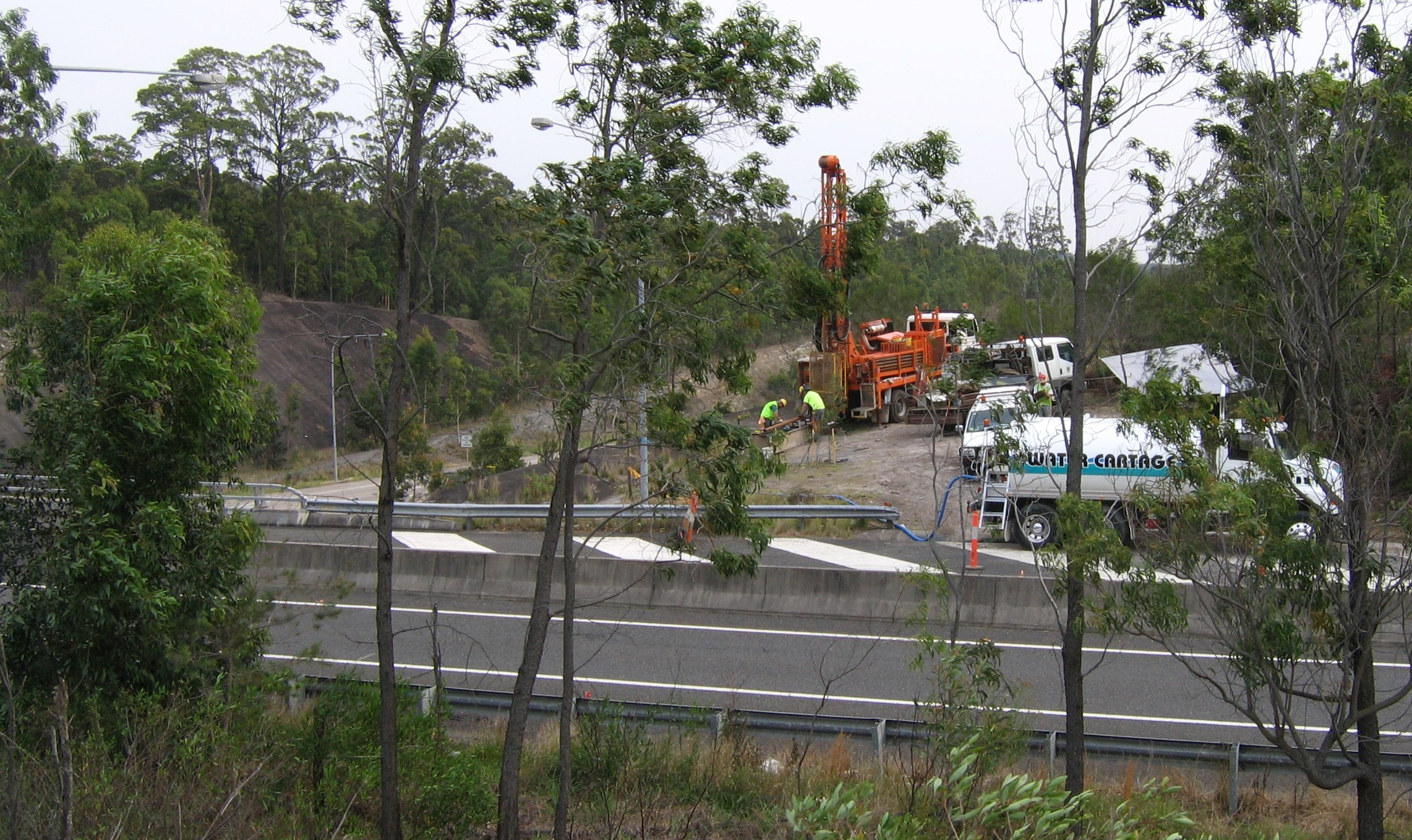 Core Sampling alongside F3 Freeway at Newcastle Link Road in preparation for F3 to Branxton link road